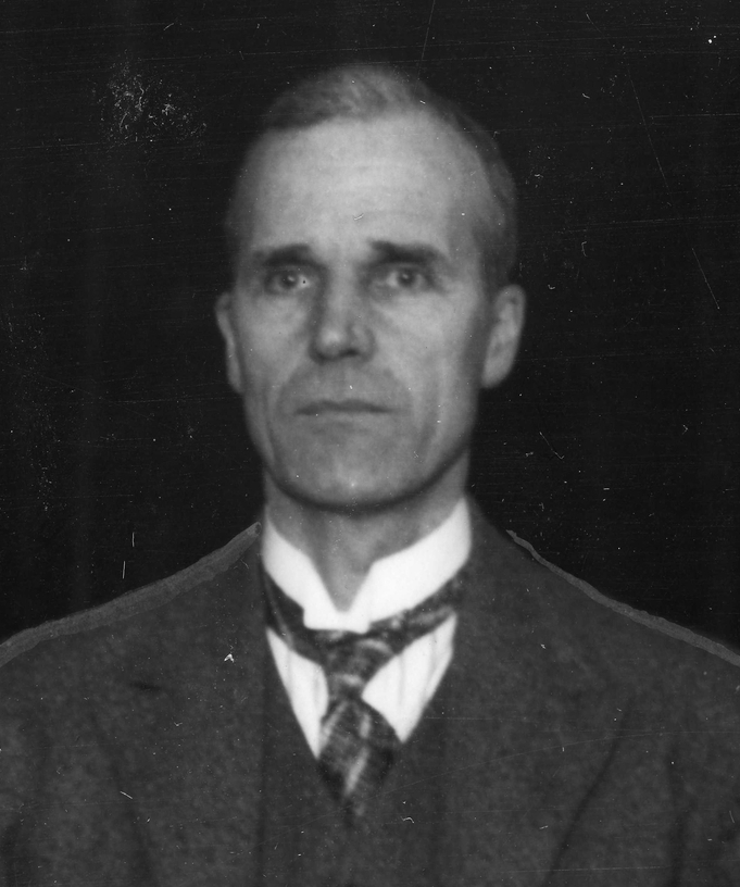 Johan Collett Holst (born March 26, 1878 in Drammen, dead January 16, 1953) was a Norwegian electrical engineer and power plant manager. He had key roles in energy development in Norway from around 1920 to 1948. The picture taken between 1930 and 1940.